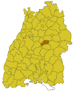 Map of Baden-Württemberg with the former county of Esslingen before 1973